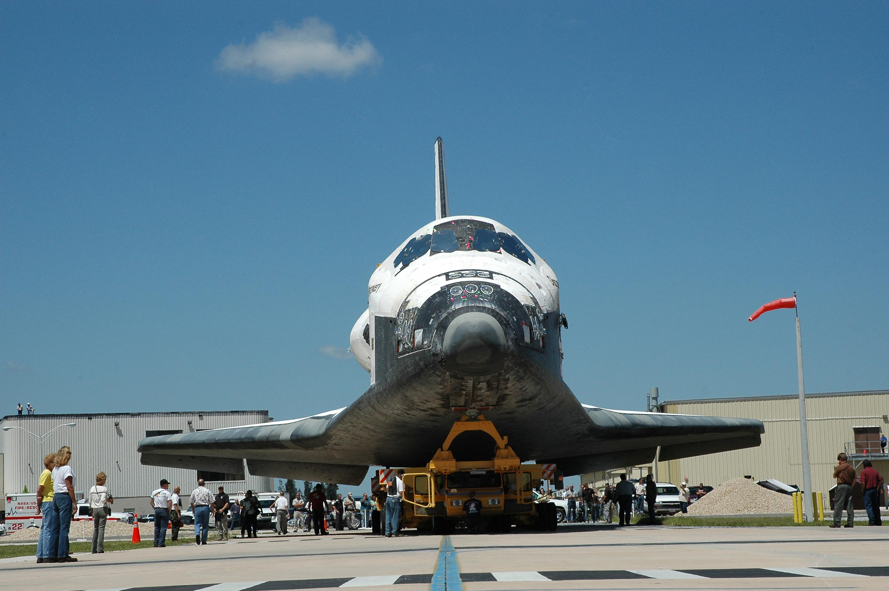 KENNEDY SPACE CENTER, FLA. – Accompanied by Center employees, the orbiter Discovery, sitting on an orbiter transporter, rolls to NASA's Vehicle Assembly Building (VAB). The rollover marks the start of the journey to the launch pad and, ultimately, launch. Once inside the VAB, Discovery will be raised to vertical and lifted up and over into high bay 3 for stacking with its redesigned external tank and twin solid rocket boosters. The rollout of Space Shuttle Discovery to Launch Pad 39B is expected in approximately a week. Launch of Discovery on mission STS-121 is scheduled to take place in a window extending July 1 to July 19. Photo credit: NASA/Jack Pfaller